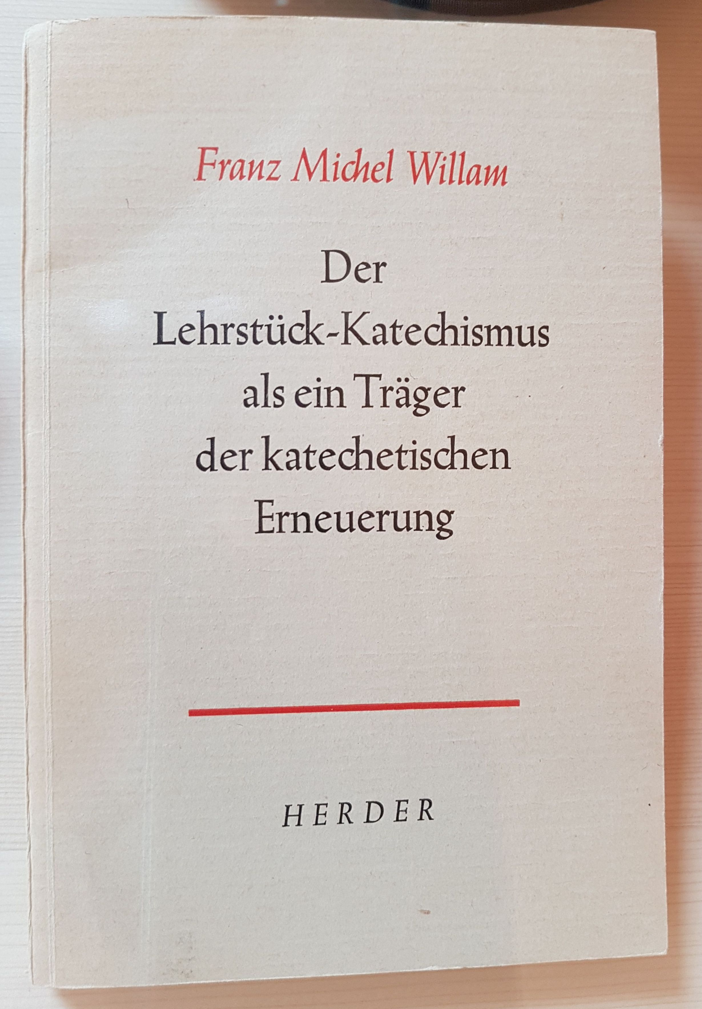 Franz Michel Willam (1894 - 1981), priest, theologian and author in Andelsbuch, Vorarlberg, Austria.